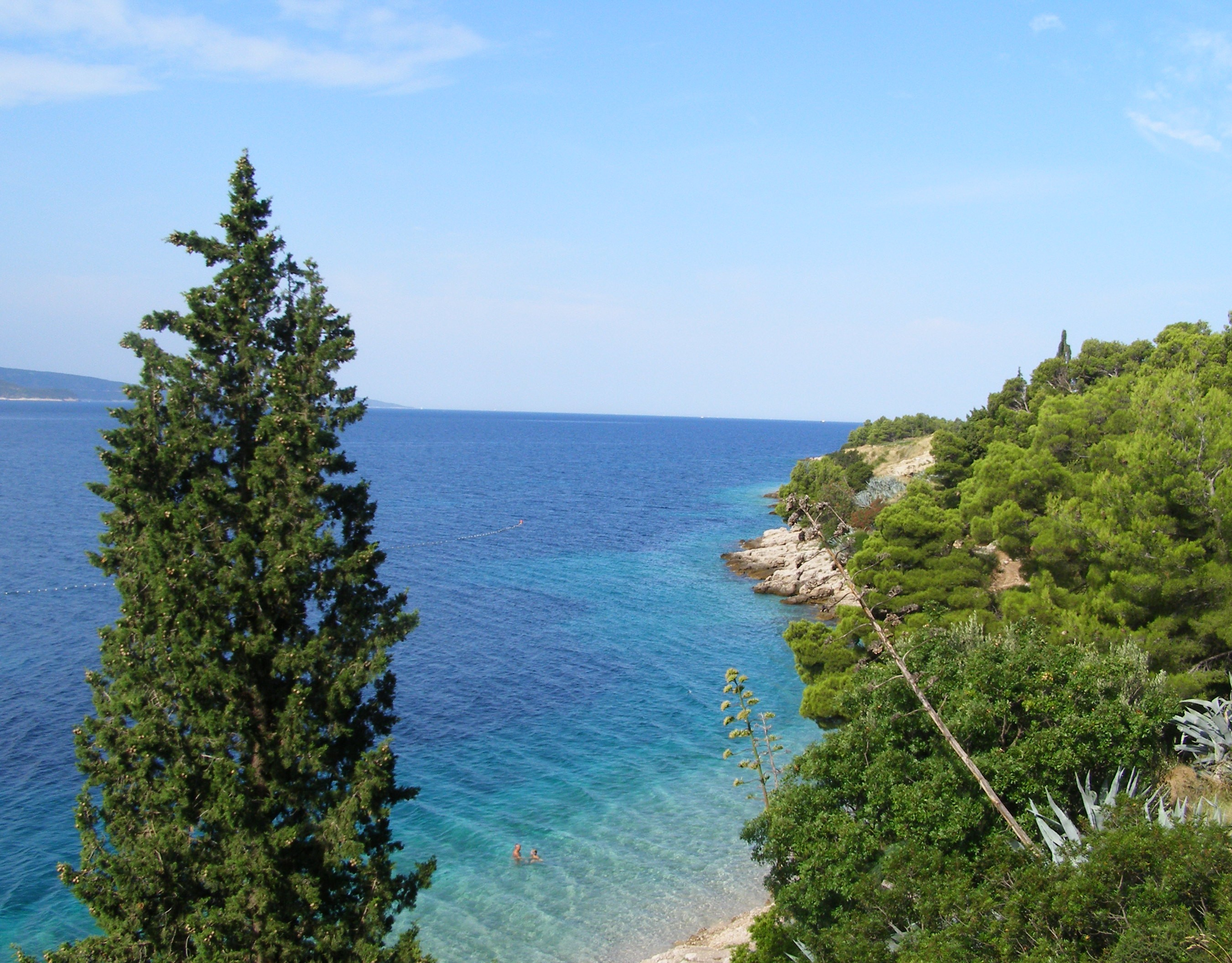 Adriatic Sea, Murvica, Island of Brač, Croatia